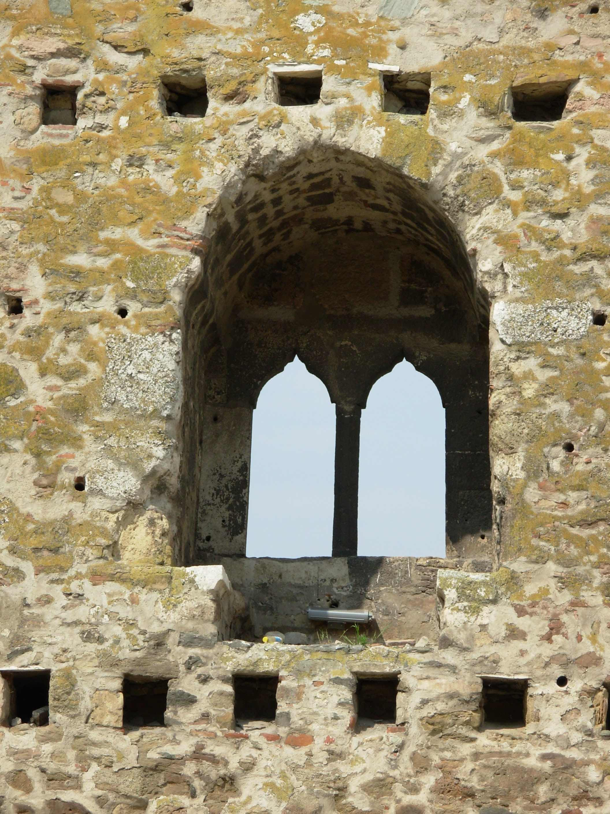 Double-arched windows above the palace remains in Smederevo Fortress.